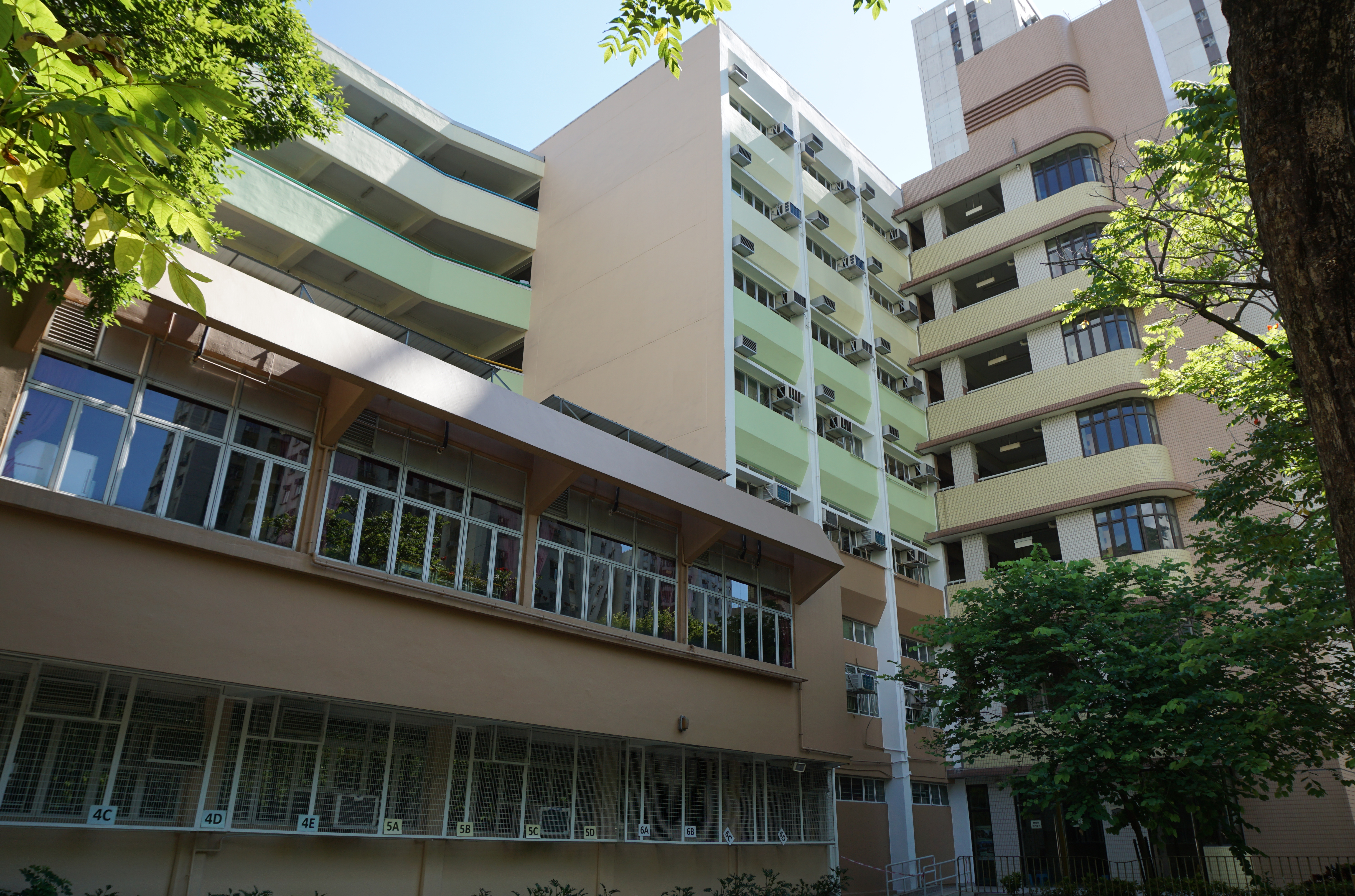 Tung Wah Group of Hospitals Tang Shiu Kin Primary School in Tuen Mun, Hong Kong.